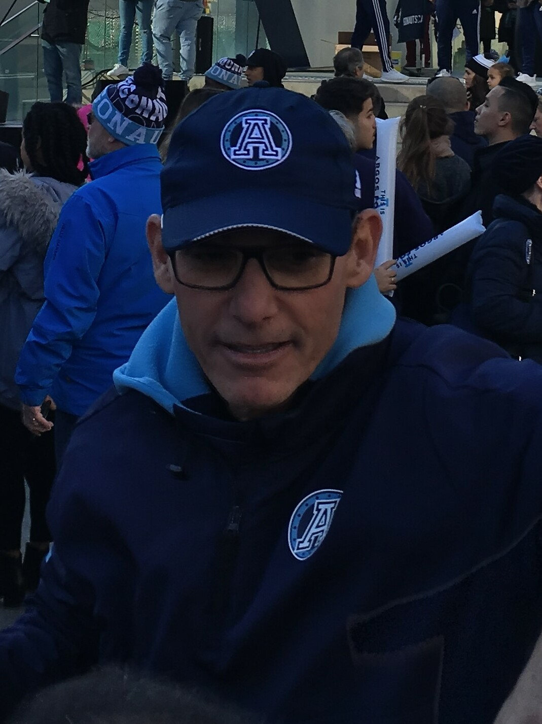 Marc Trestman shaking hands with fans at the 105th Grey Cup Rally outside of Toronto City Hall.